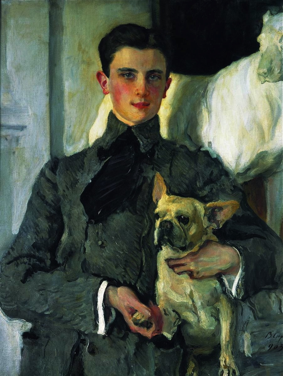 Portrait of Count Felix Felixovitch Sumarokov-Elston, later Prince Felix Yusupov (1887-1967)